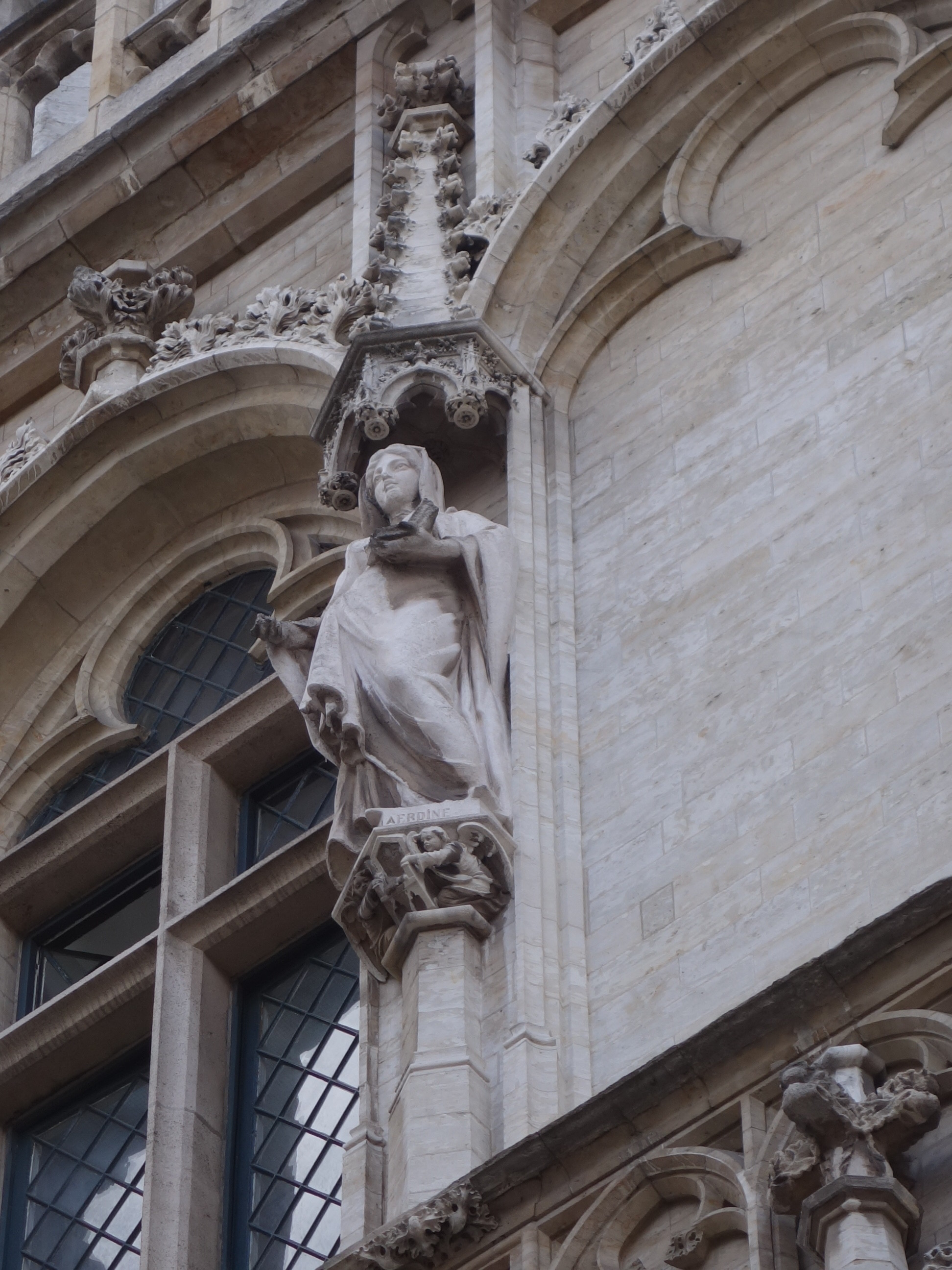 Heilwige Bloemaert or Bloemardinne (Brussels, ca. 1265 – 1335). Statue on the façade of the town hall.